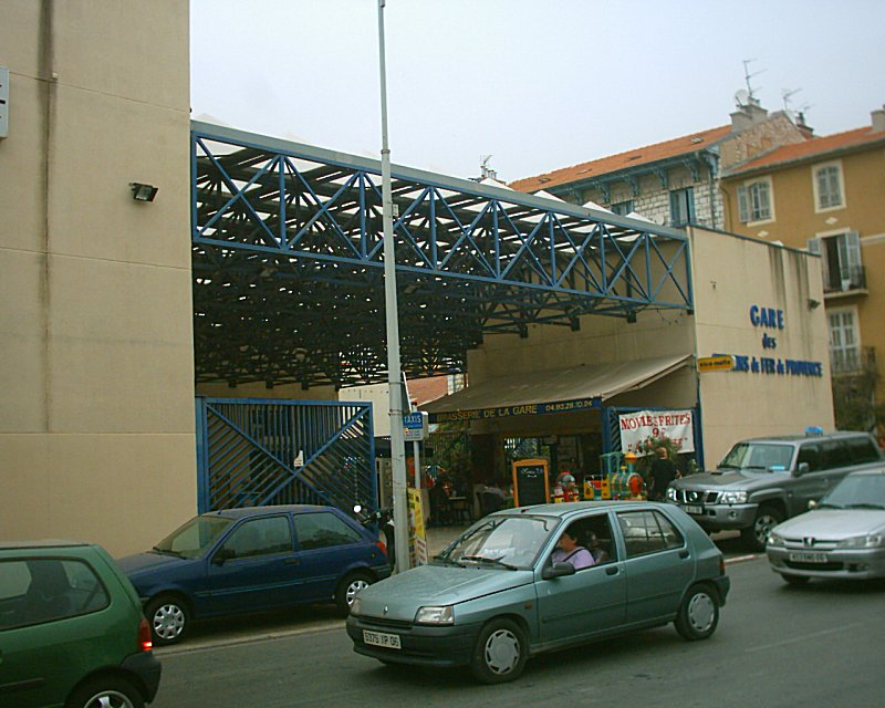 Front of Gare de Nice CP, Nice.